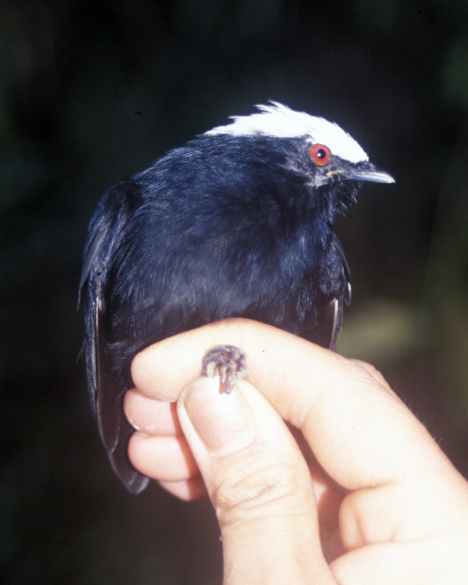 White-crowned Manakin (Dixiphia pipra), male from Ecuador